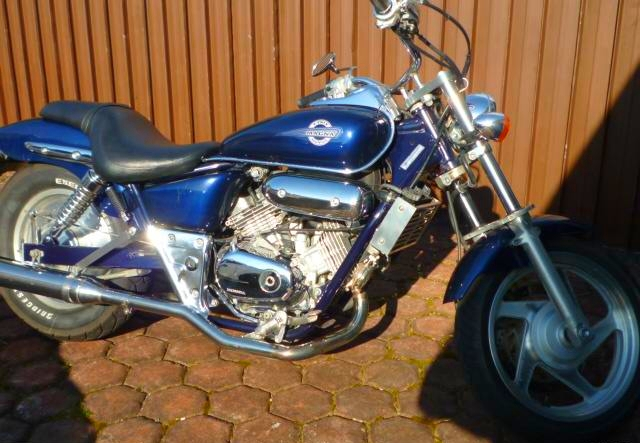 Picture of my Honda Magna VT250C with aftermarket exhaust.